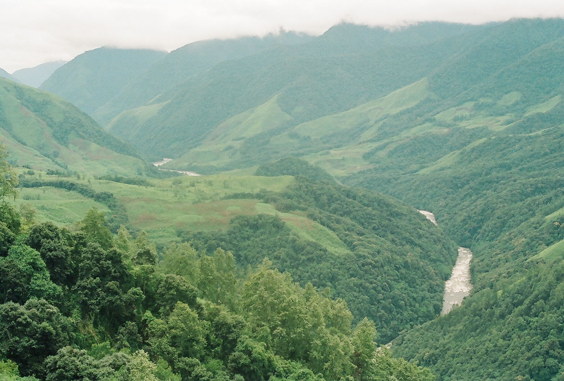 I think this is looking south from the Mithun Valley. The Dri river joining from the left. Upper Dibang Valley District, Arunachal Pradesh, India, July 1987